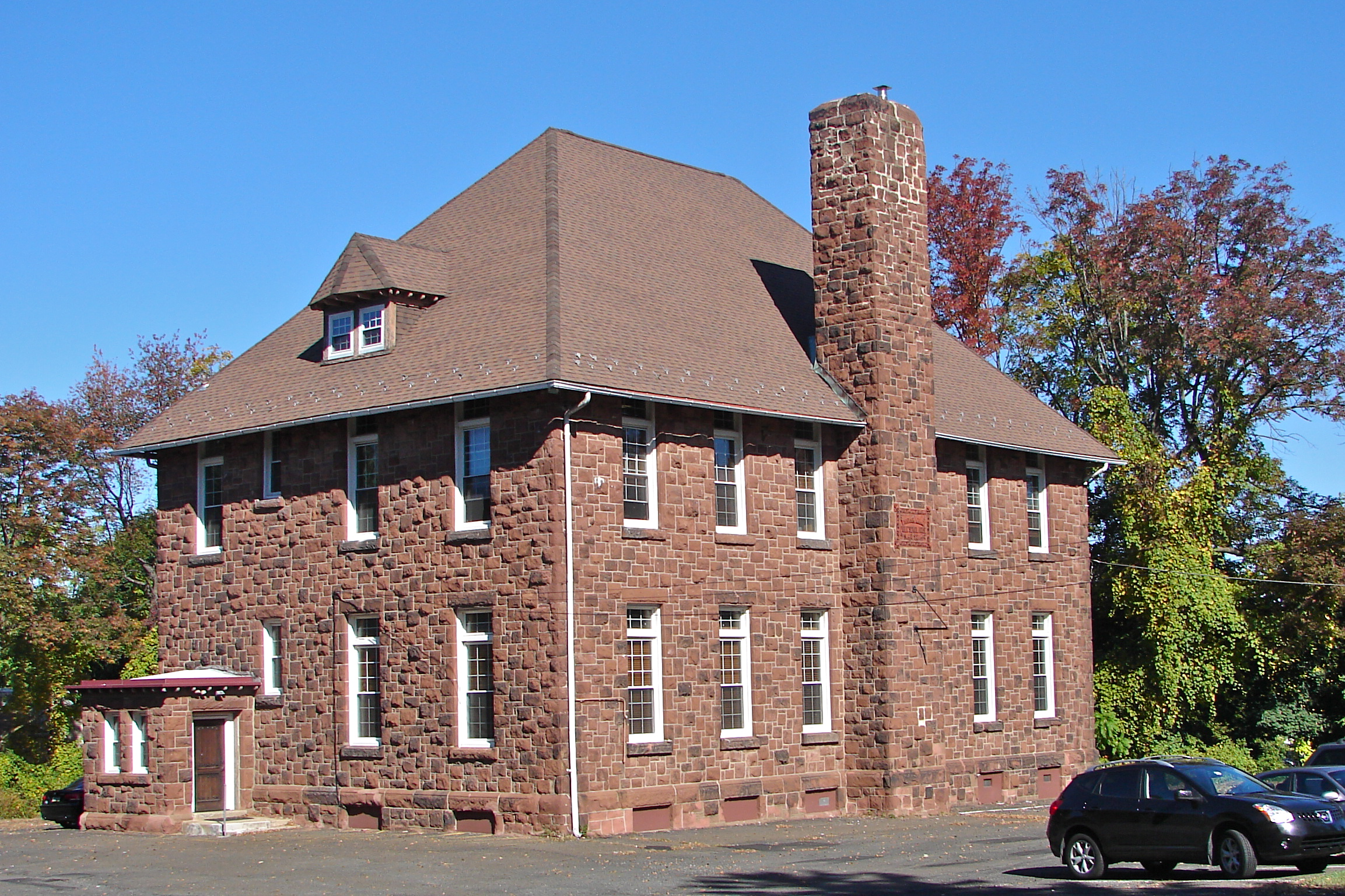 The old Watson Comly School in Philadelphia on the NRHP since November 18, 1988. At 13250 Trevose Road in the Somerton neighborhood of NE Philly. There is a newer school nearby with a similar name, but this is the NRHP site. The building was also used as a lodge of some type (Masonic?).